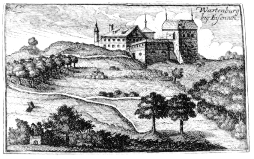 A view of Wartburg castle in 17. century